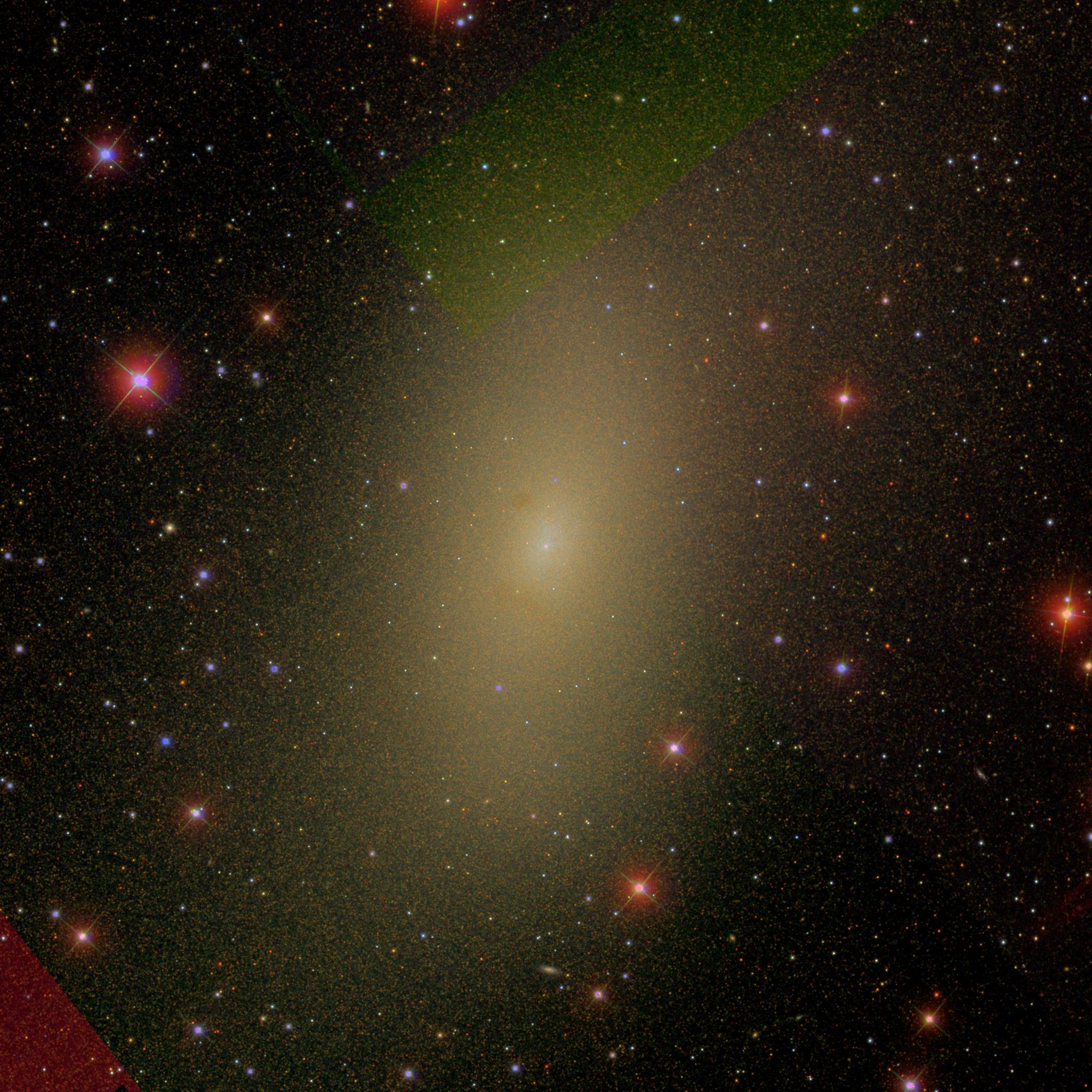 Angle of view: 36' x 36' (0.52734375" per pixel), north is up.